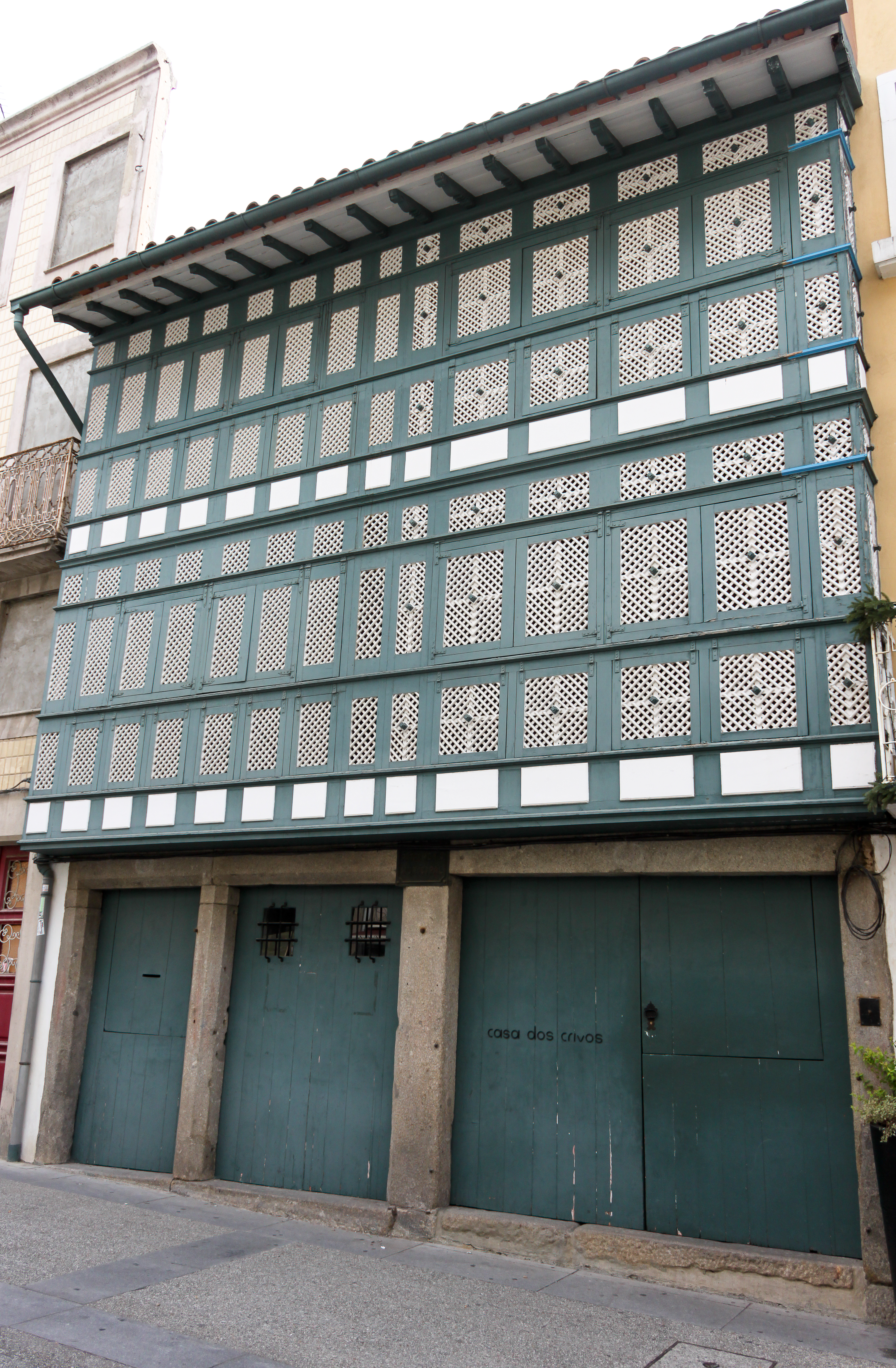 The front facade of the Residence of the Crivos, showing lattice and interior access-ways along the Rua de São Marcos. The Casa dos Crivos is an architectural specimen of the parish of St. John Souto, Braga from the seventeenth and eighteenth centuries.